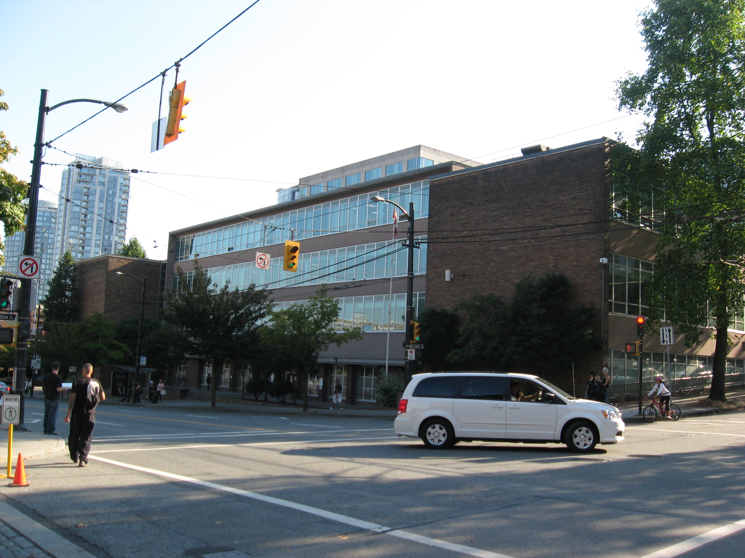 Vancouver Vocational Institute, now Vancouver Community College's downtown campus 250 West Pender Street Vancouver, British Columbia Canada